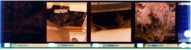 A strip of negative from my old Kodak. Released under GFDL.